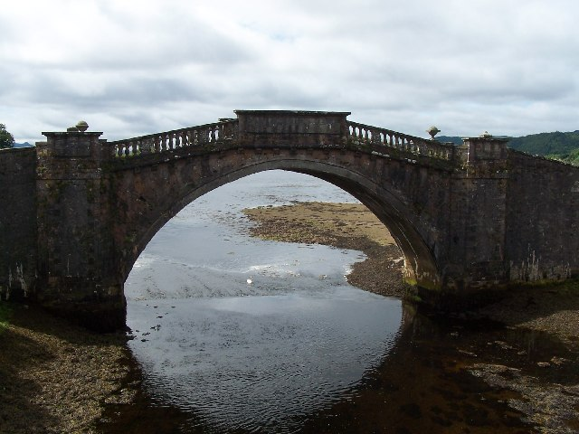 Garron Bridge, River Shira. Taken from the new bridge